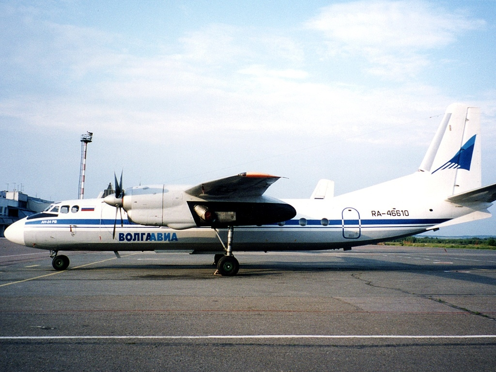 New livery on . Scan photo.